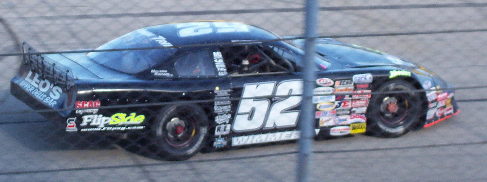 Chris Wimmer in his ASA Midwest Tour Super Late Model at the Milwaukee Mile. The former NASCAR Craftsman Truck Series driver finished a solid 2nd.